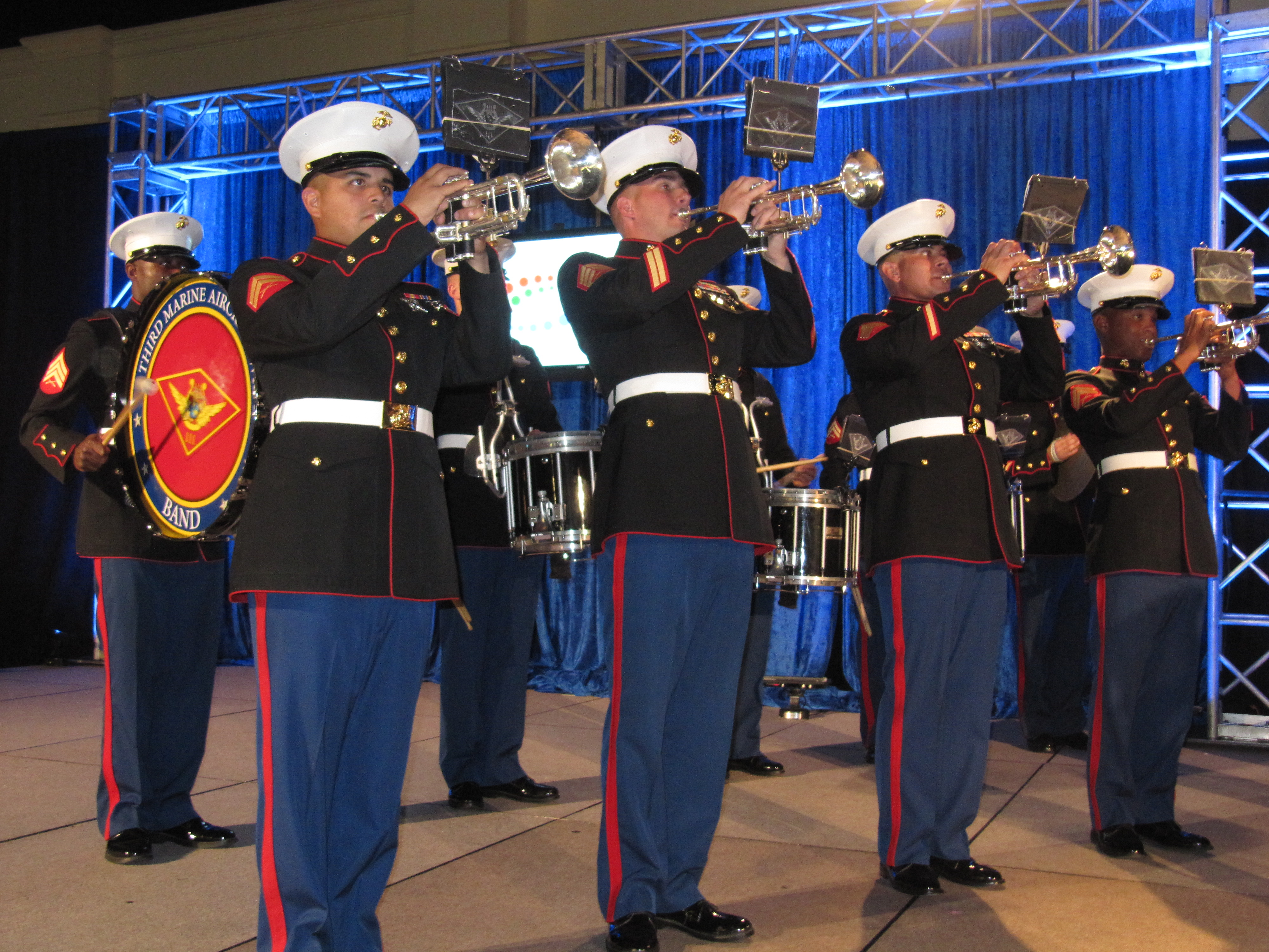 Military Band Performing at San Diego Regional Chamber of Commerce Award Ceremony, 2011. Photograph by Patty Mooney, Crystal Pyramid Productions, San Diego, California.